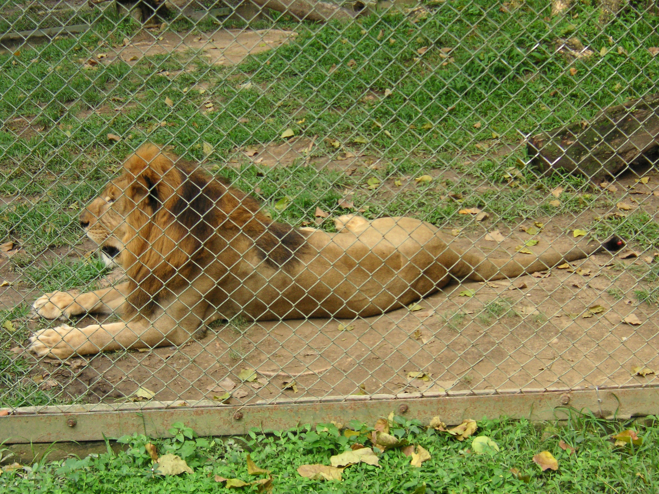 caracas zoo